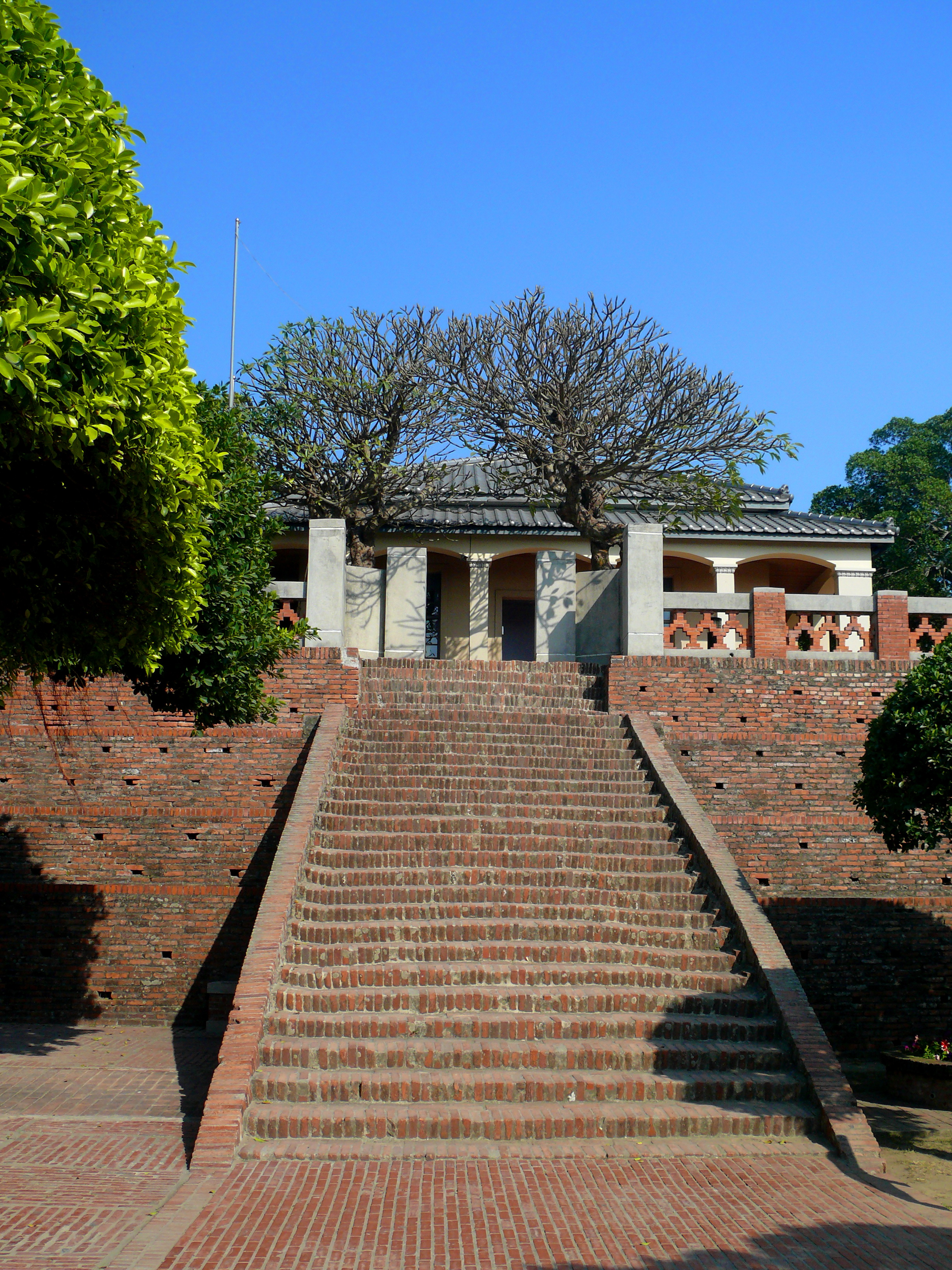 Anping Fort museum (Fort Zeelandia), Tainan, Taiwan.